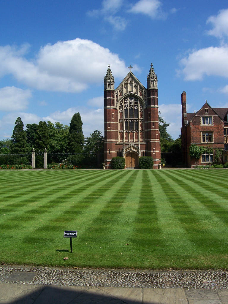 The chapel and green at Selwyn College, Cambridge University, Cambridge, England.